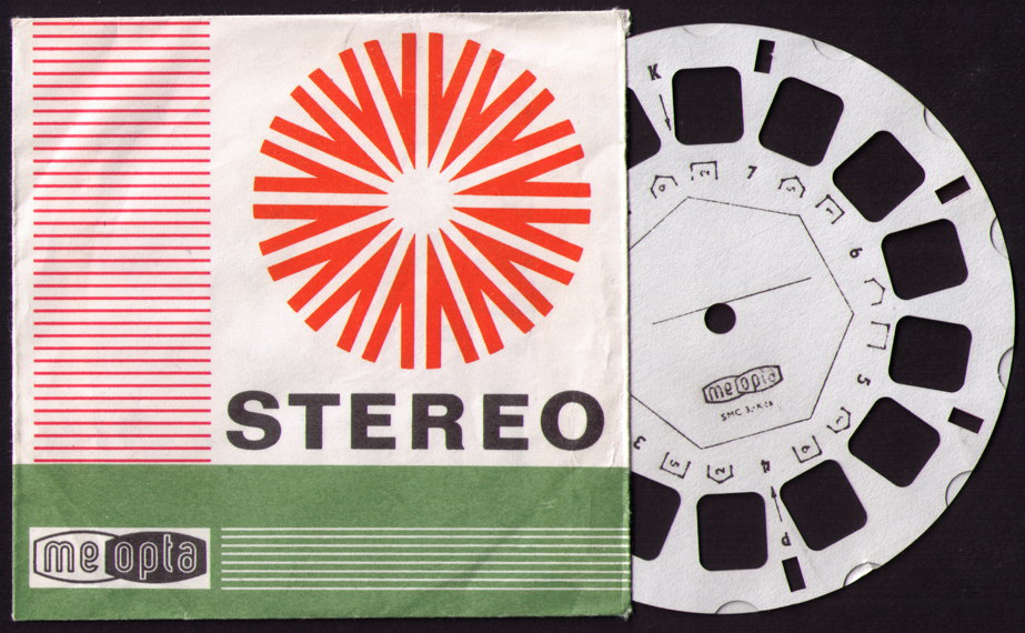 An empty Meopta stereo reel.